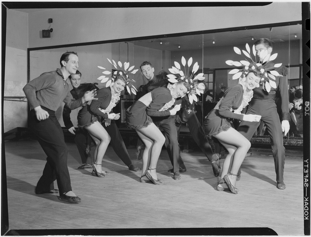 Gottlieb, William P., 1917-, photographer. [Portrait of Lee Sherman, Radio City Music Hall, New York, N.Y., ca. June 1947] 1 negative : b&w ; 3 1/4 x 4 1/4 in. Notes: Gottlieb Collection Assignment No. 291 Purchase William P. Gottlieb Forms part of: William P. Gottlieb Collection (Library of Congress). In: "To unite dance-jazz on concert stage," Down Beat, v. 14, no. 13 (June 18, 1947), p. 15. Subjects: Sherman, Lee Dancers--1940-1950. Jazz dance--1940-1950. Radio City Music Hall Format: Portrait photographs--1940-1950. Group portraits--1940-1950. Film negatives--1940-1950. Rights Info: Mr. Gottlieb has dedicated these works to the public domain, but rights of privacy and publicity may apply. Repository: (negative) Library of Congress, Prints & Photographs Division, Washington D.C. 20540 USA, Part Of: William P. Gottlieb Collection (DLC) 99-401005 General information about the Gottlieb Collection is available at Persistent URL: Call Number: LC-GLB13- 1514 This work is from the William P. Gottlieb collection at the Library of Congress. Rights and restrictions.In accordance with the wishes of William Gottlieb, the photographs in this collection entered into the public domain on February 16, 2010.